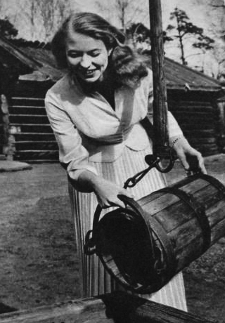 Erna Groth (1931-1993)